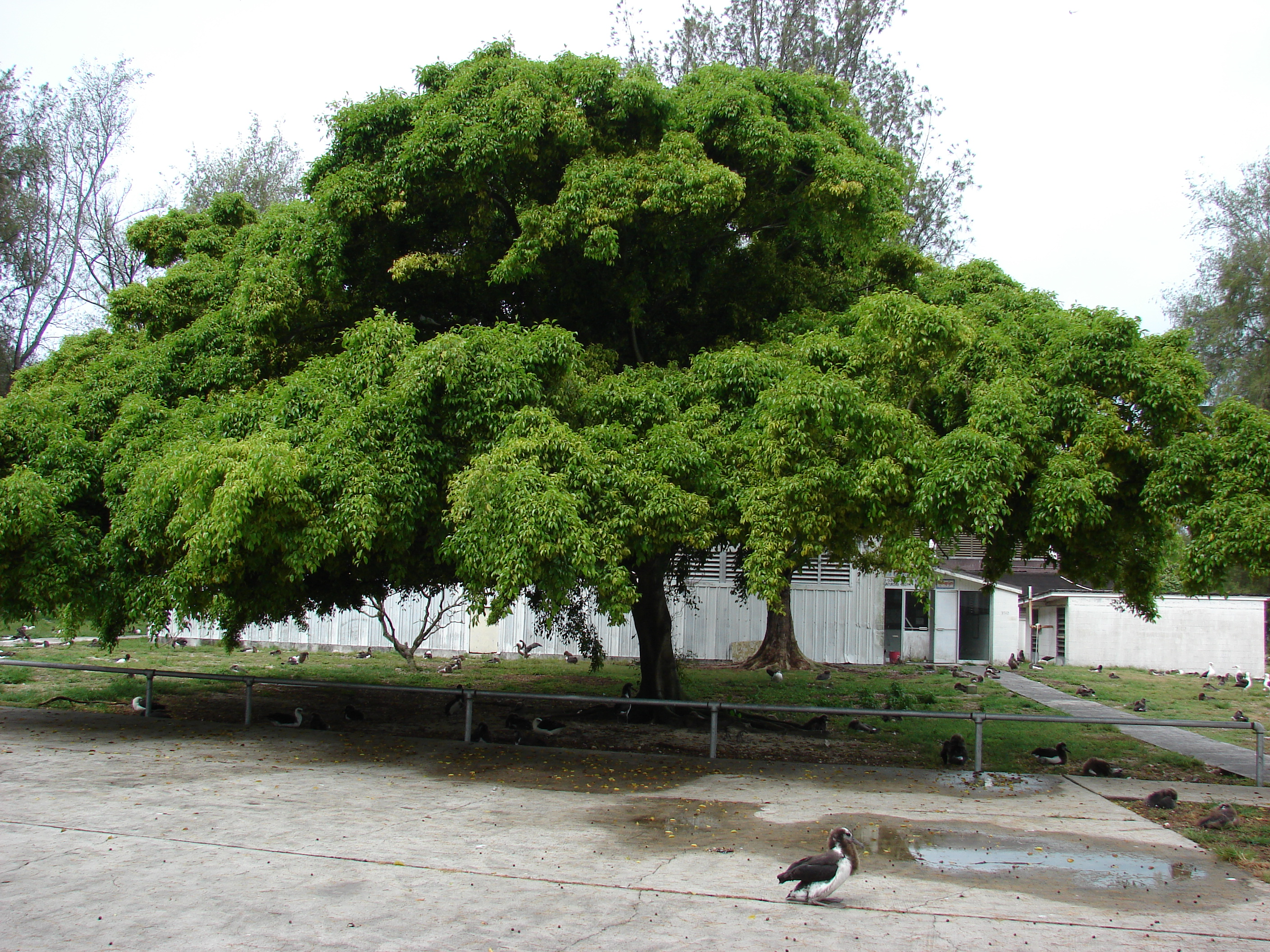 Ficus benjamina (habit with Laysan albatross). Location: Midway Atoll, Gym Sand Island